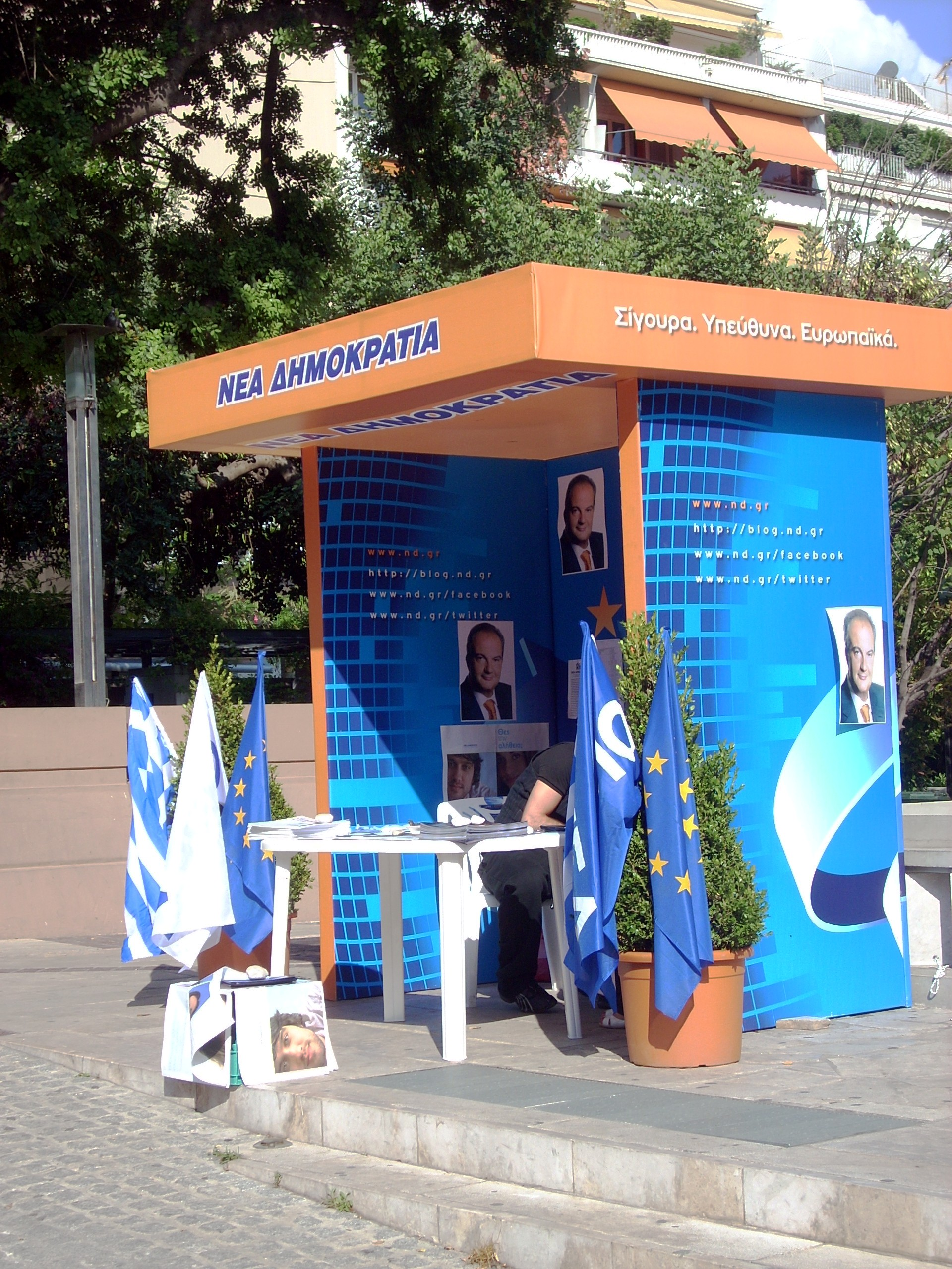 Kiosk of political party – New Democracy (Athens, Greece, political campaign before the European Parliament Election 2009). Kolonakiou Square